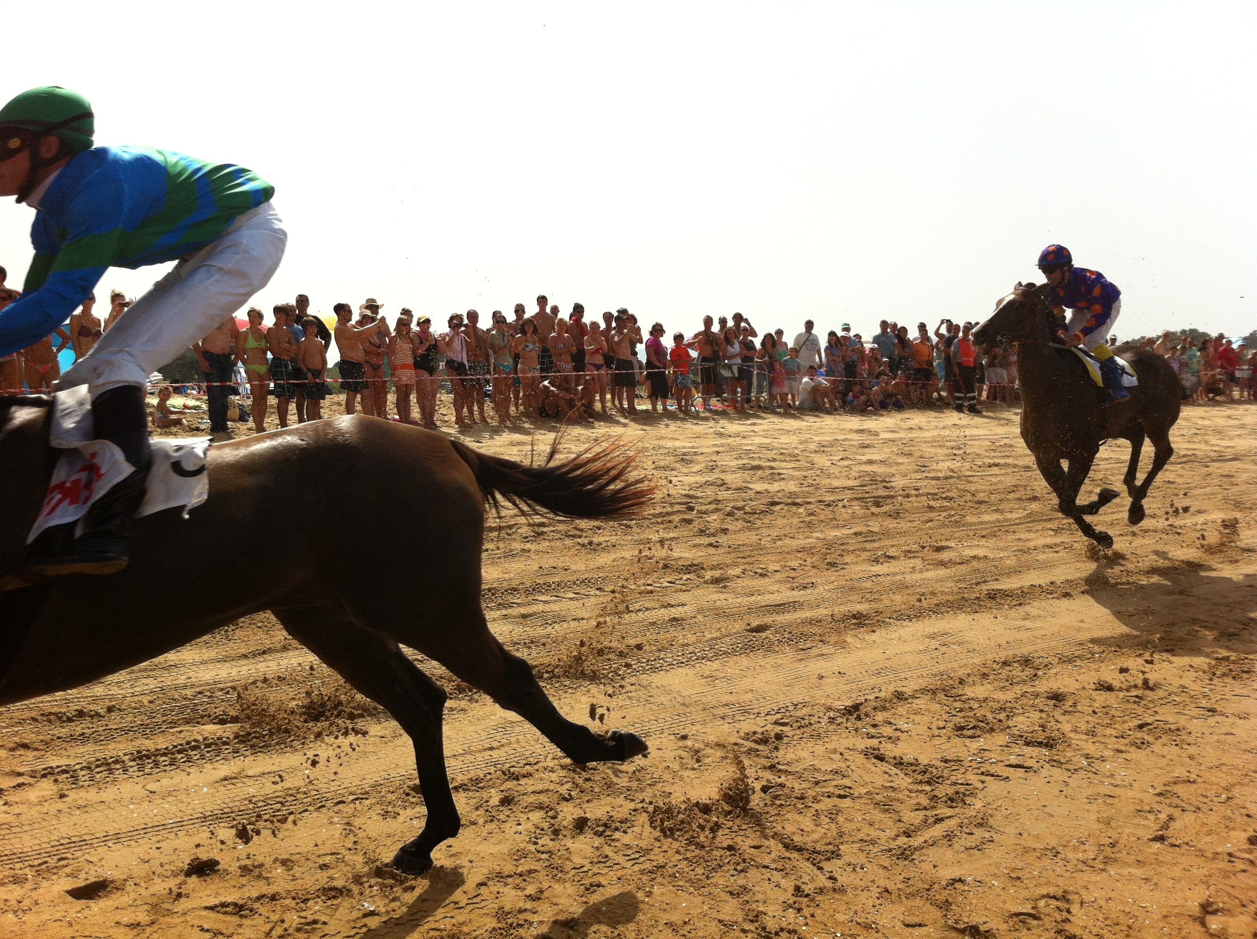 Loredo Derby